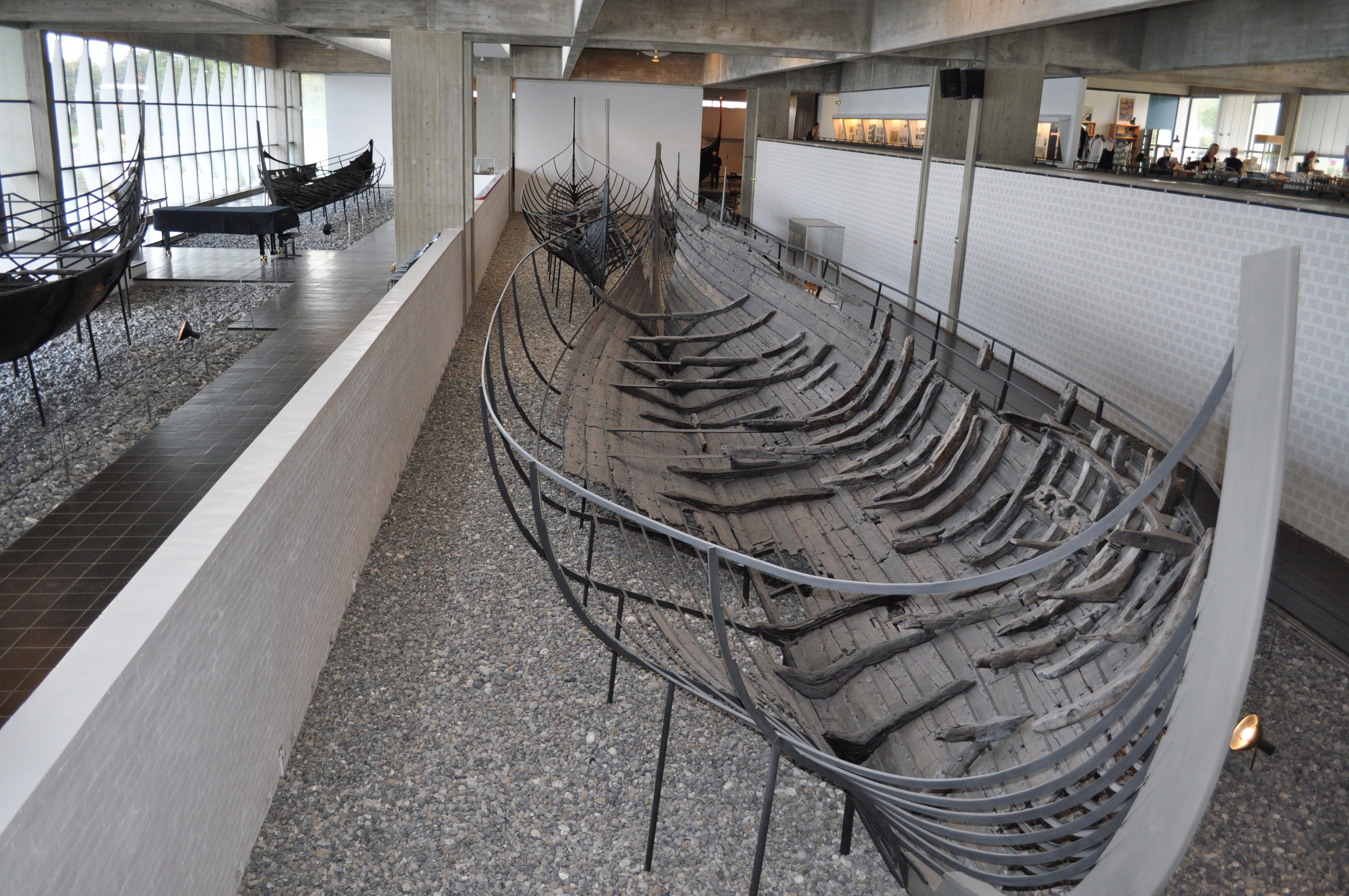 Viking ship museum, Skuldelev I in front